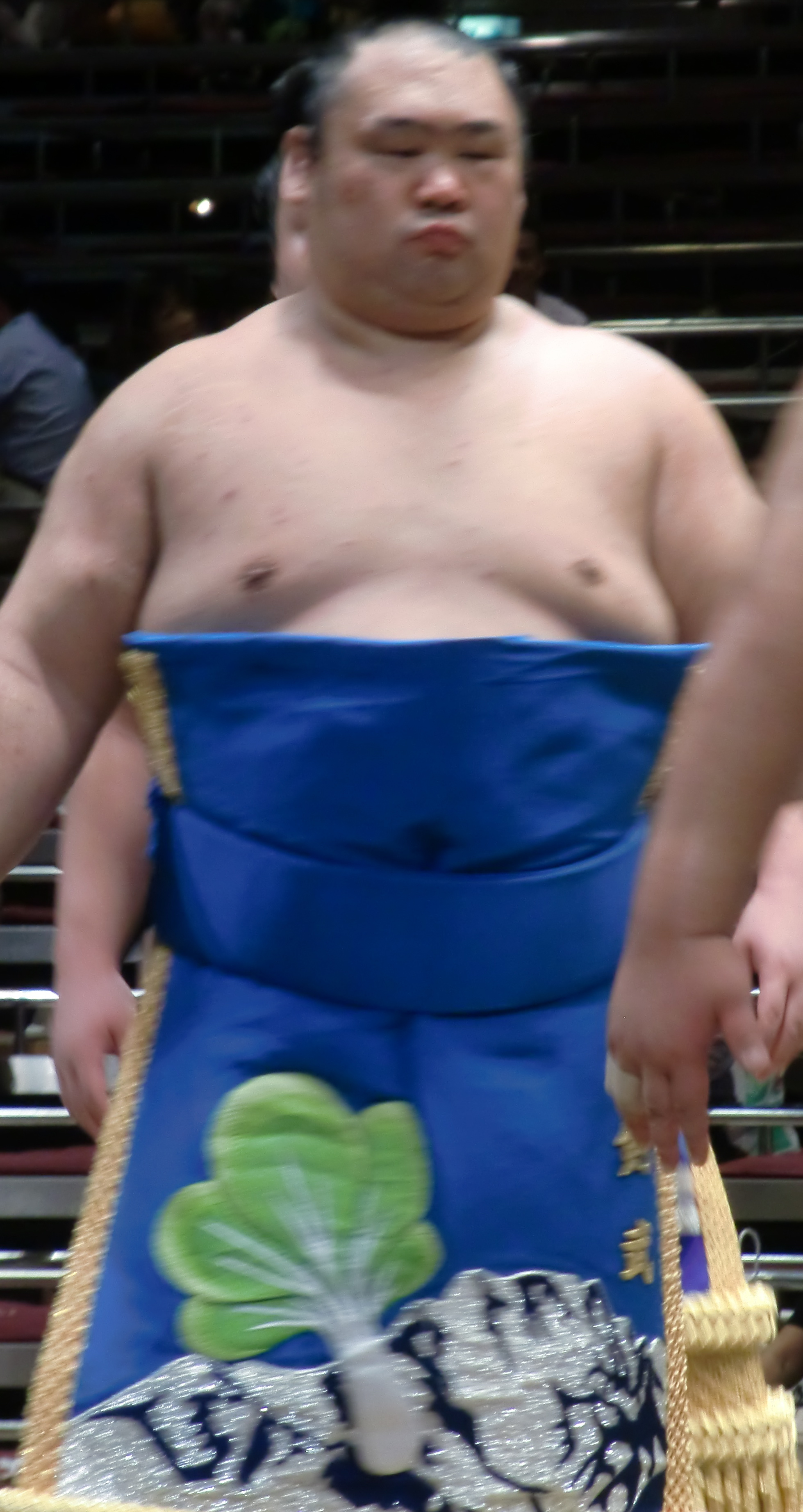 taken at 2011 Sep tournament